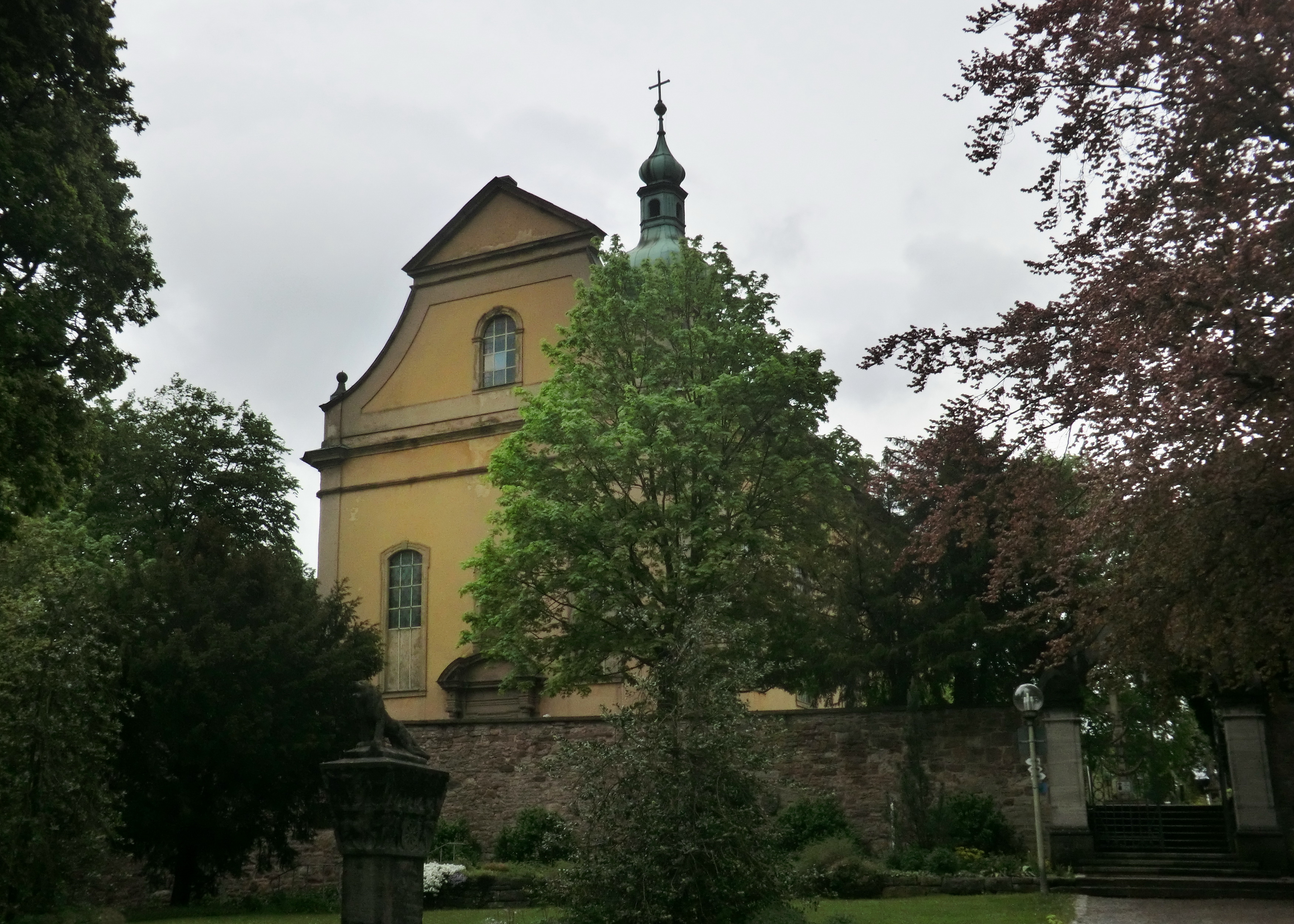 Marienkapelle Native nameMarienkapelleLocationBad Kissingen, Lower Franconia, GermanyCoordinates50° 12′ 06.12″ N, 10° 05′ 03.84″ E Authority control : Q1897733 institution QS:P195,Q1897733